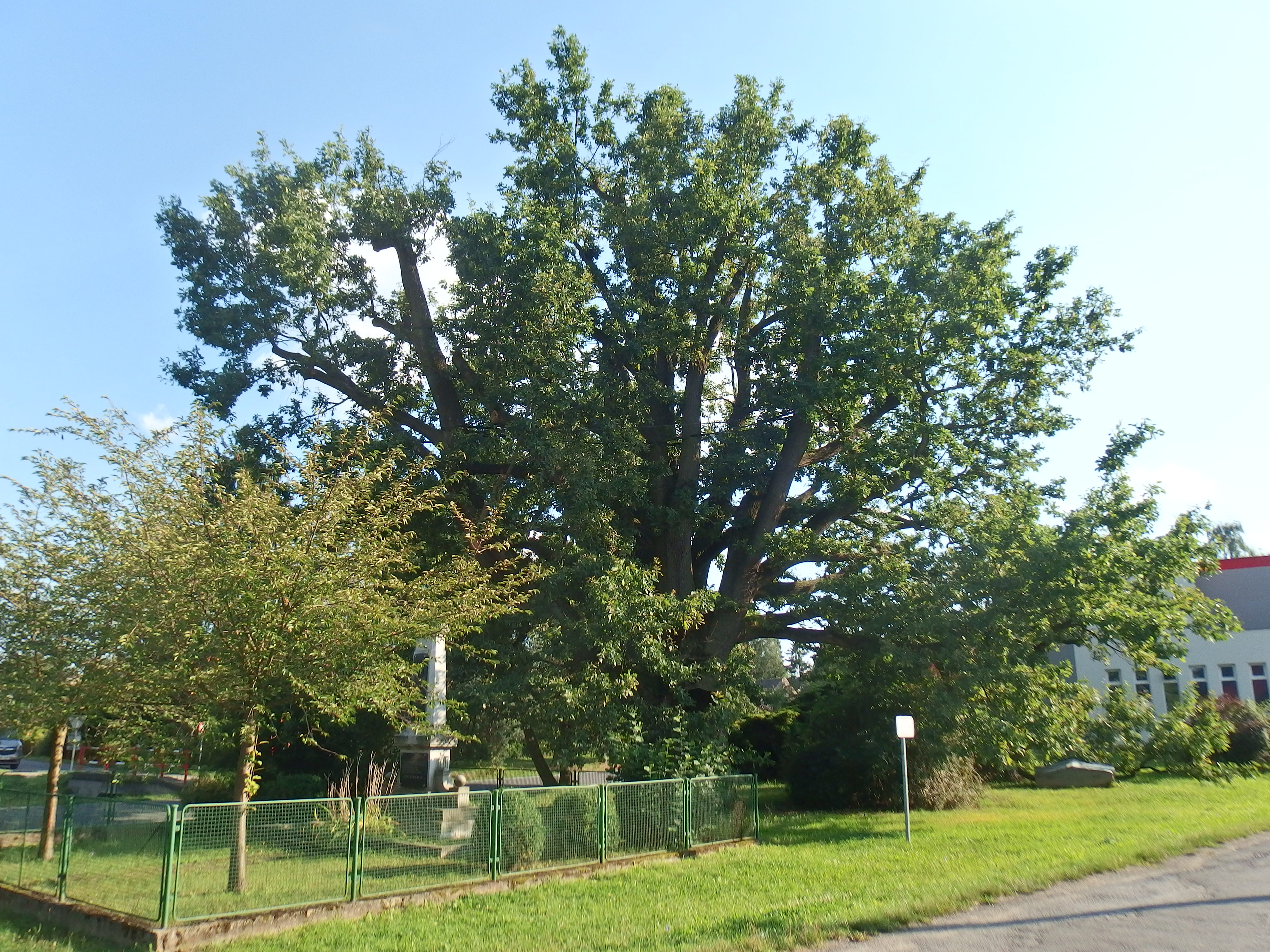 Mohelnice, Šumperk District, Czech Republic, part Újezd.